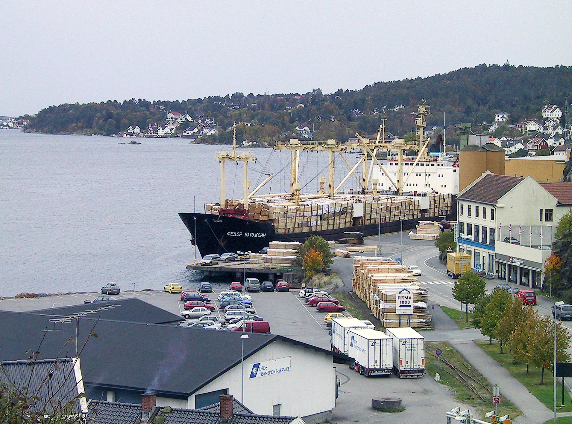 Harbour at Arendal havn